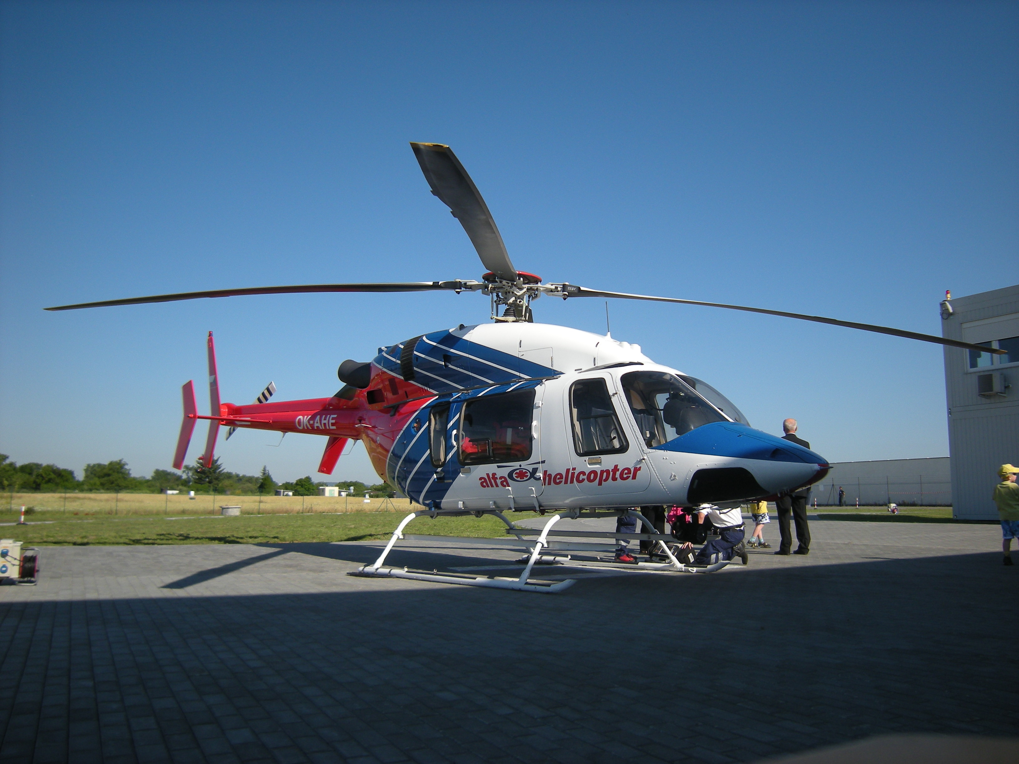 Rescue helicopter Bell 427 (OK-AHE) in the Czech Republic